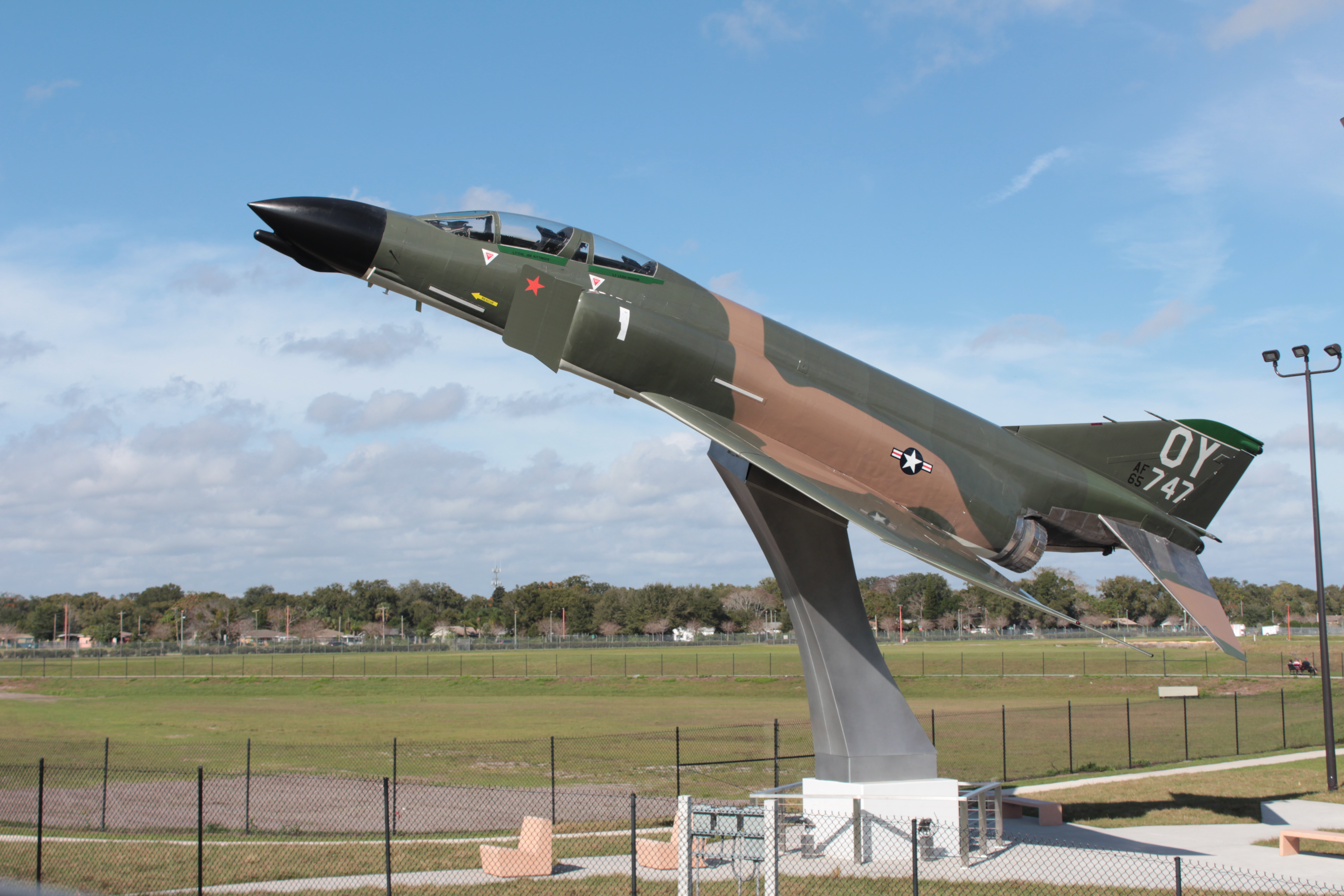 F4-D #65-0747 that is on display at Kittinger Park in Orlando, FL